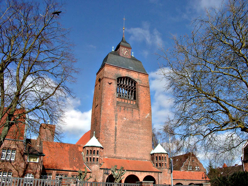 Front view of the Petrus-Kirche in Kiel-Wik, Germany